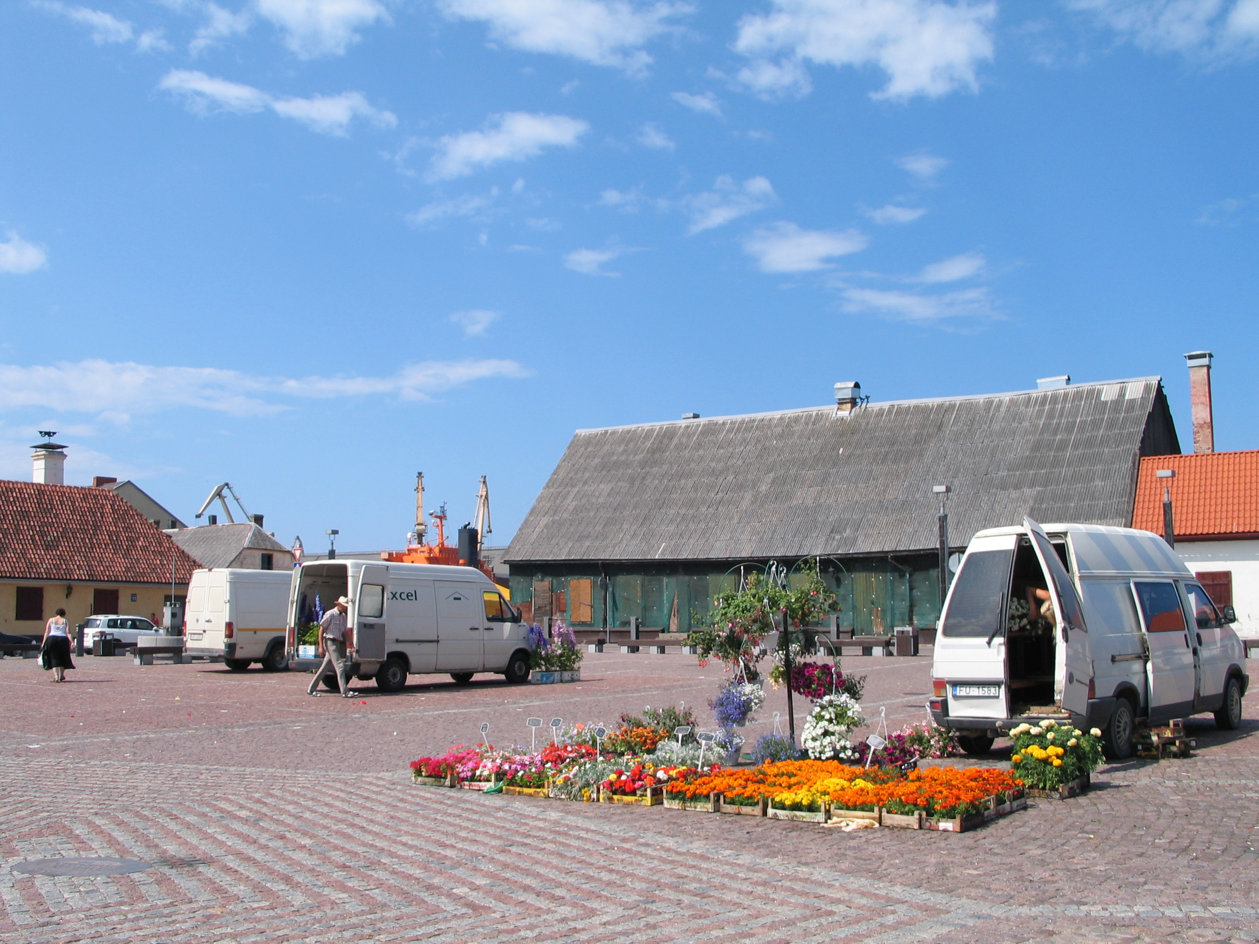 Market place in Ventspils